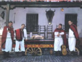 Los Fronterizos. Alta Fidelidad (1959). Argentina.